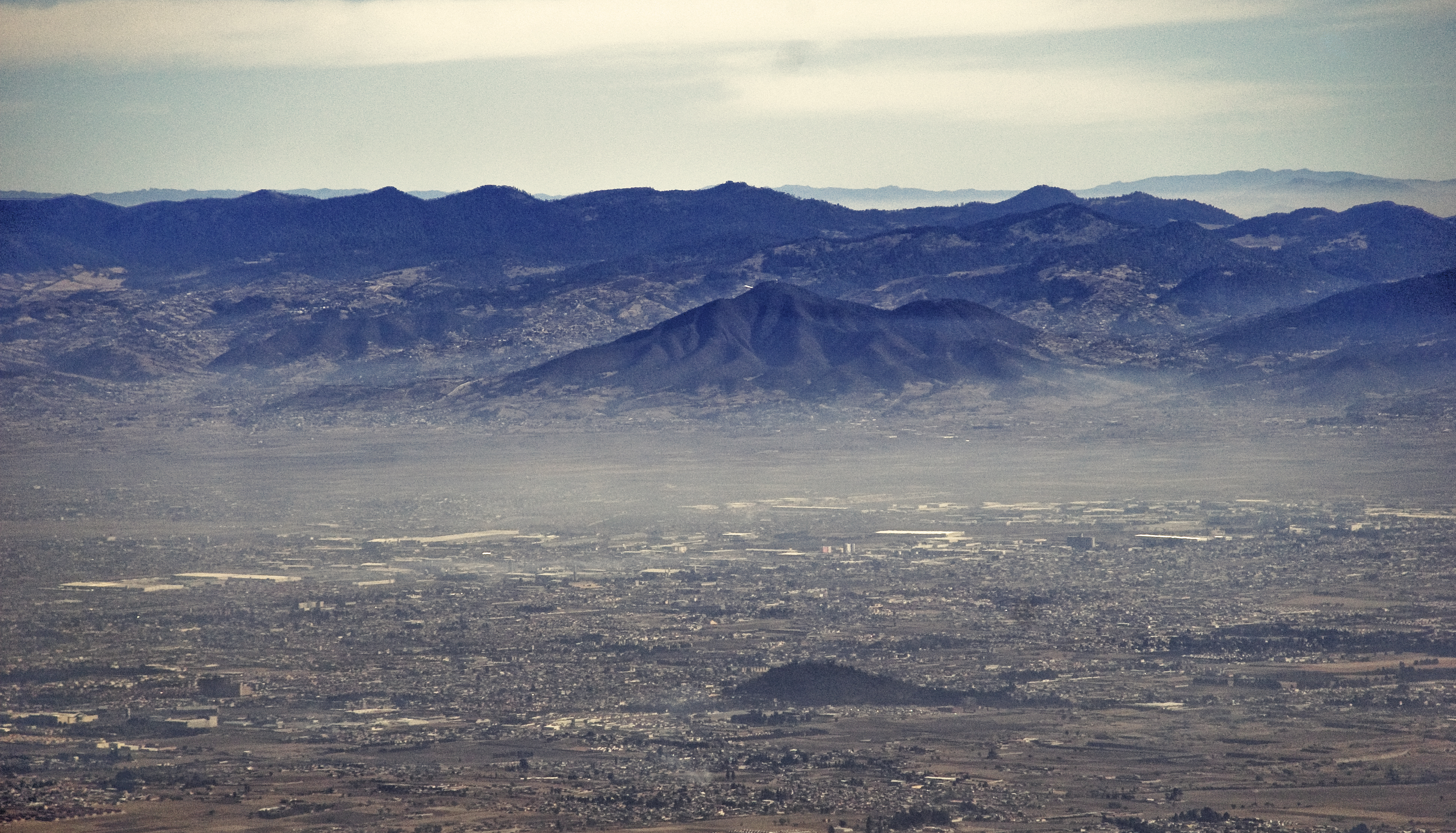 Air Pollution in Toluca.